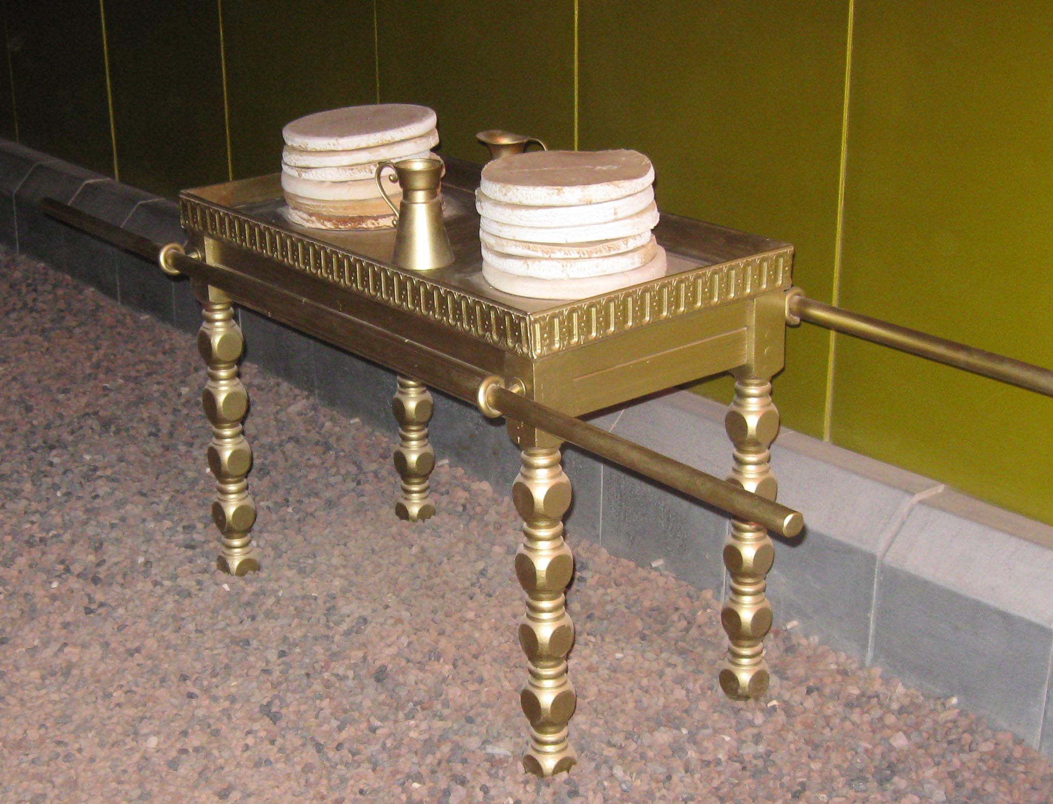 Table of Showbread, in a full size replica of the Israelite Tabernacle (Mishkan) in Timna valley, Israel.